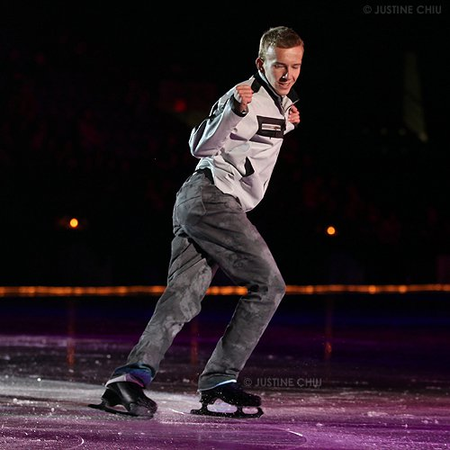 Ice show